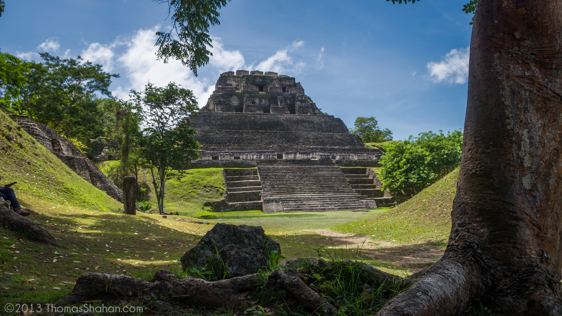 Xunantunich, Belize